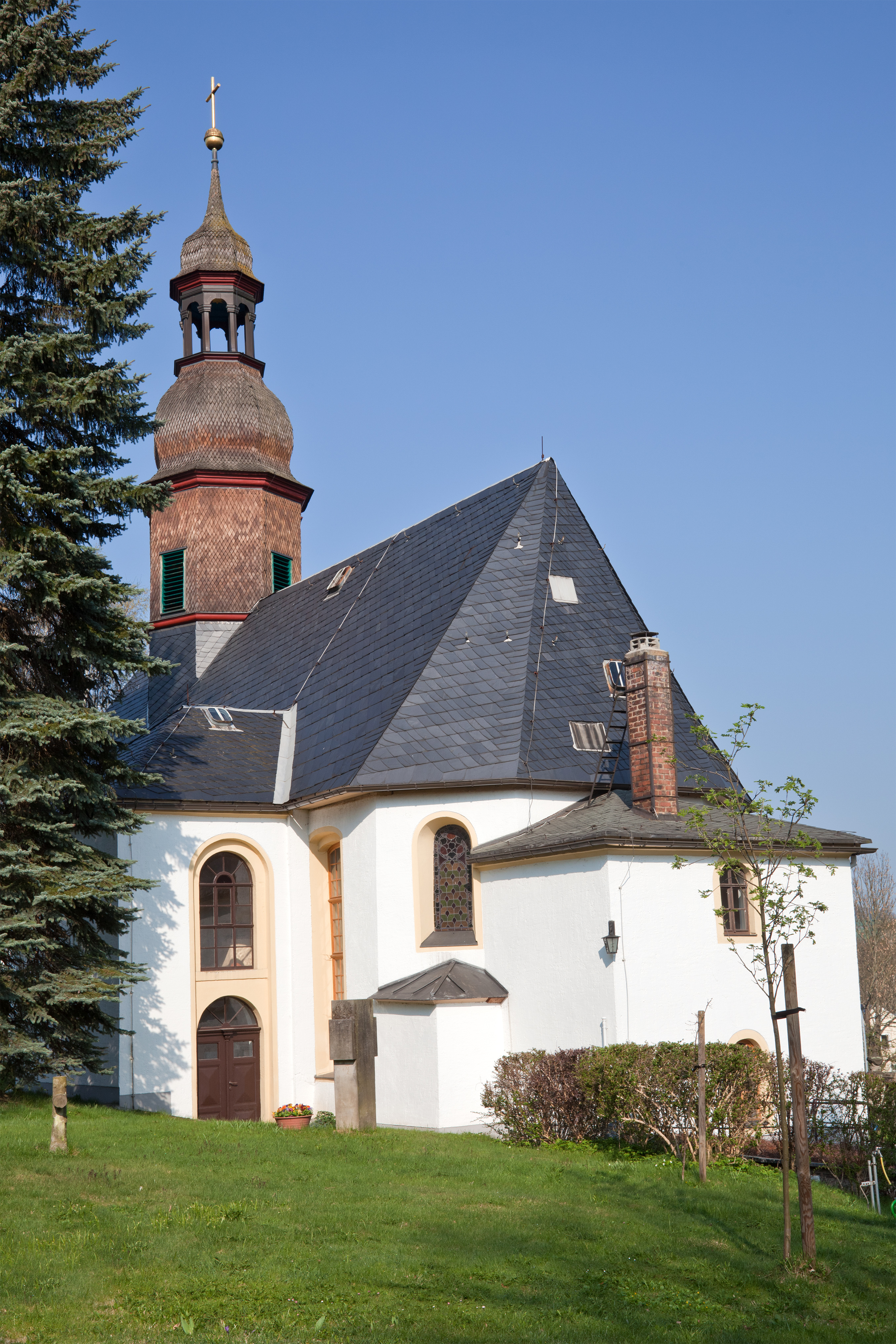 Mulda, Saxony, church